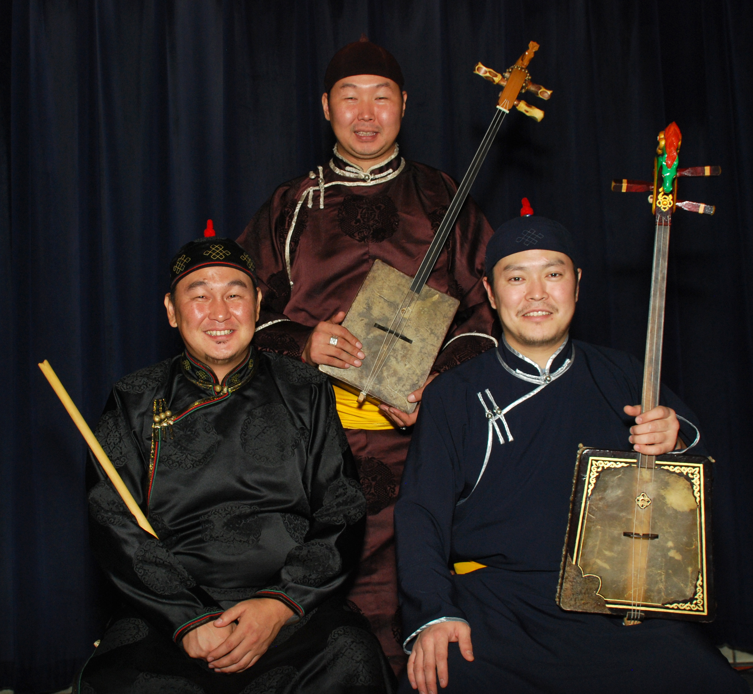 Alash Ensemble, a touvan music group: (left to right) Ayan Shirizhik, Bady-Dorzhu Ondar, Ayan-ool Sam. Boston, MA, USA. November 5, 2013.